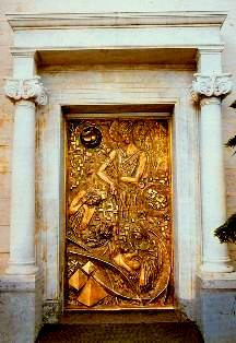 Vincenzo Gennaro. Monumental bronze door La porta della vita. Santuario della Madonna di Loreto Altavilla Milicia PA -1998-2000